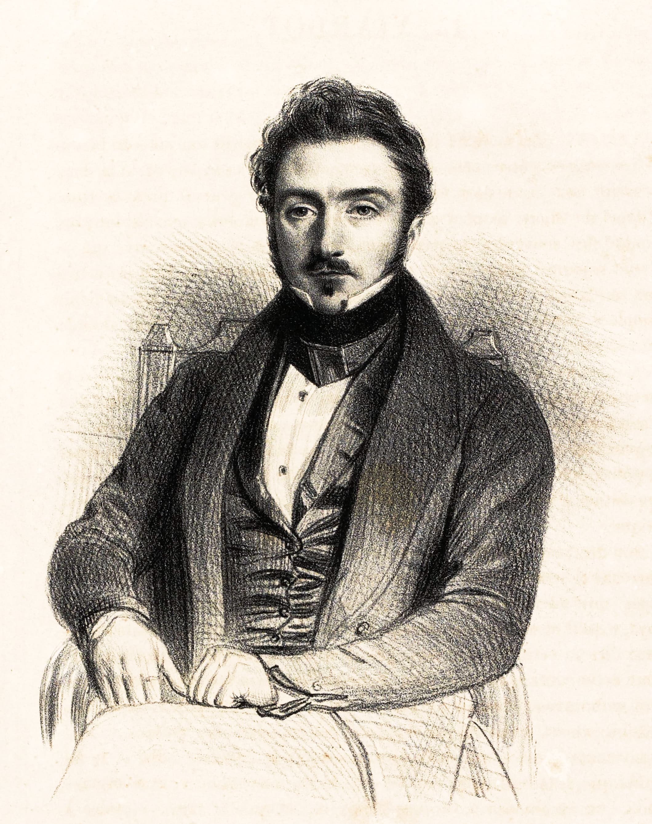 Drawing of Louis Viardot (1800-1883), French translator, writer, and literary critic